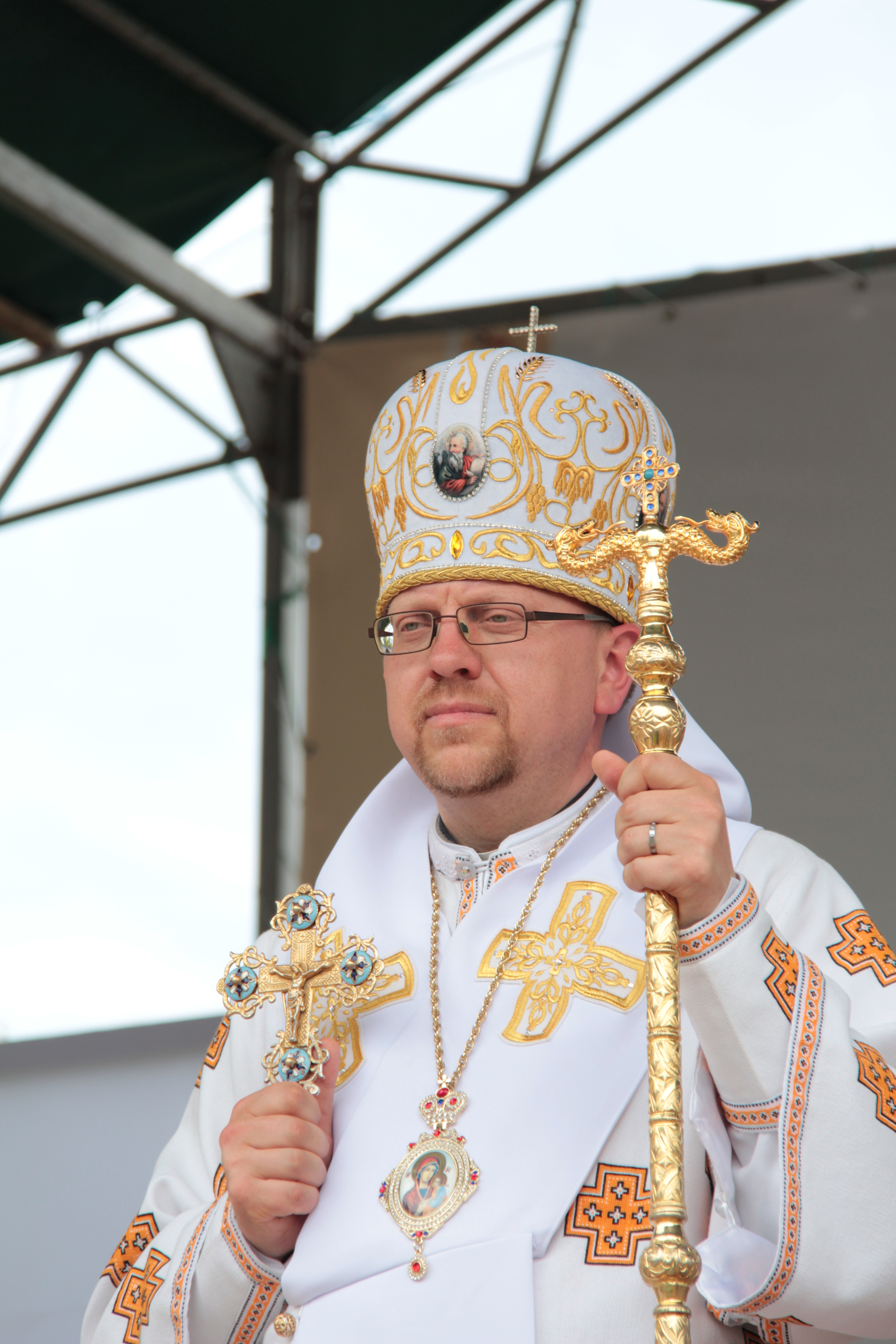 Bishop Volodymyr Hrutsa, CSsR